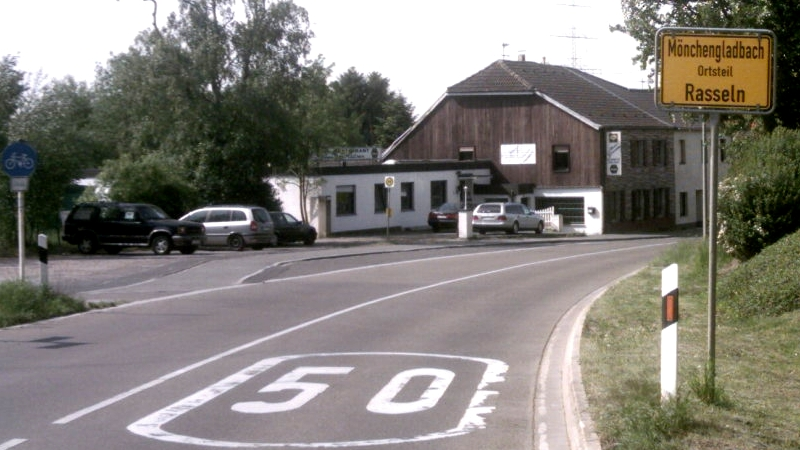 Rasseln city limit, Mönchengladbach, Germany.